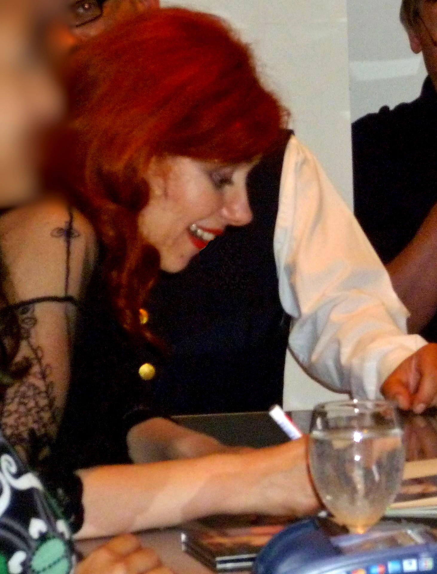 Patricia Petibon in August 2009 at the Festspielhaus in Salzburg signing autographs